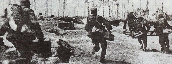 Chinese soldiers charge against enemy emplacements in the Battle of Tai'erzhuang